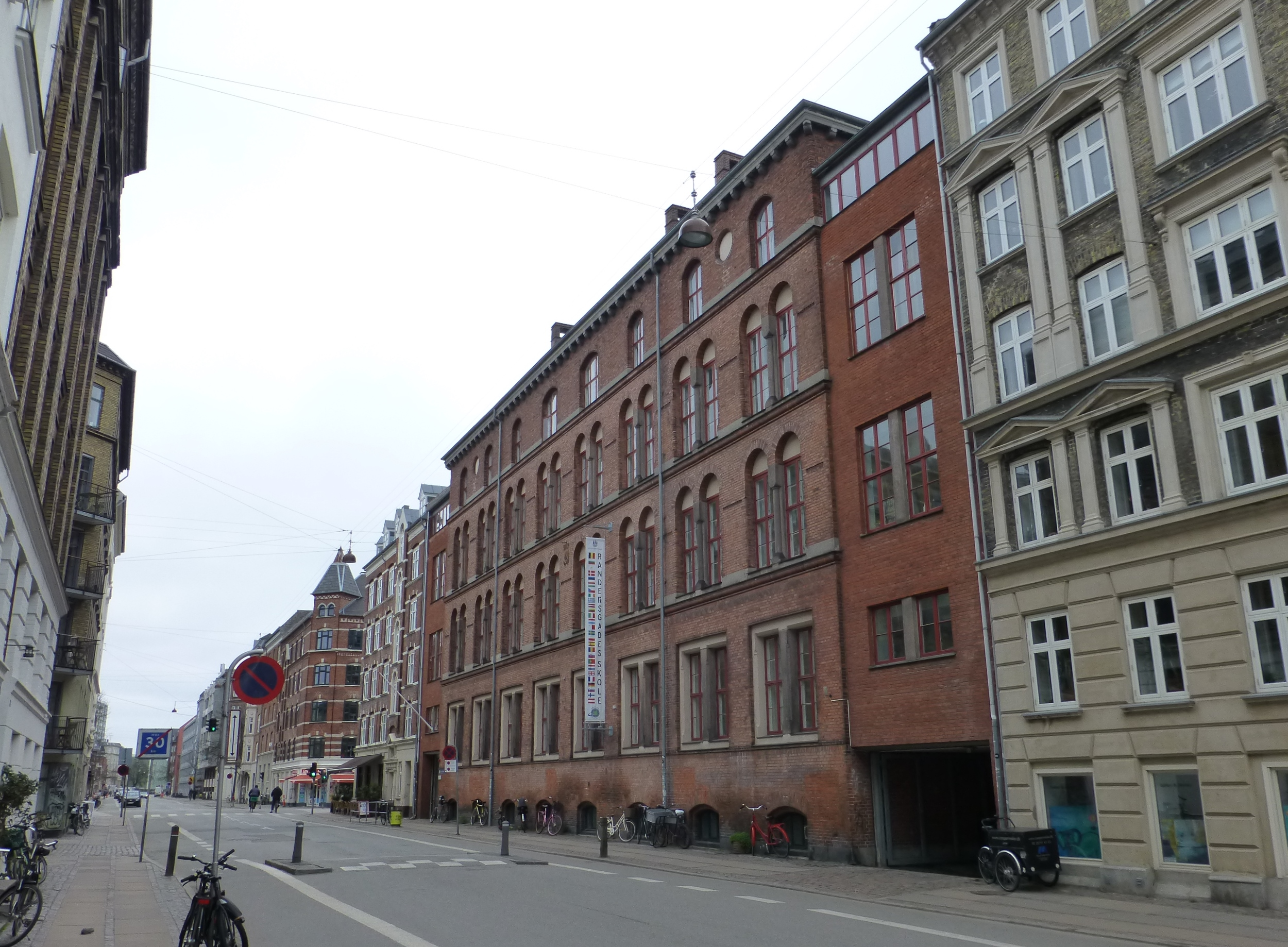 Randersgades Skole in Randersgade in Østerbro in Copenhagen.